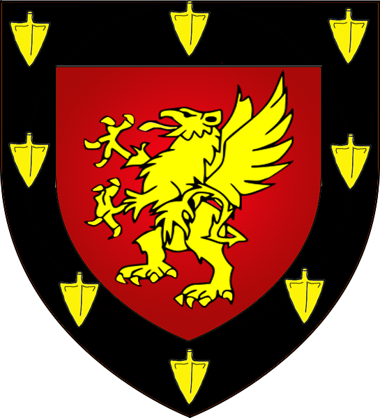 Coat of arms of the municipality of Dippach, Luxembourg